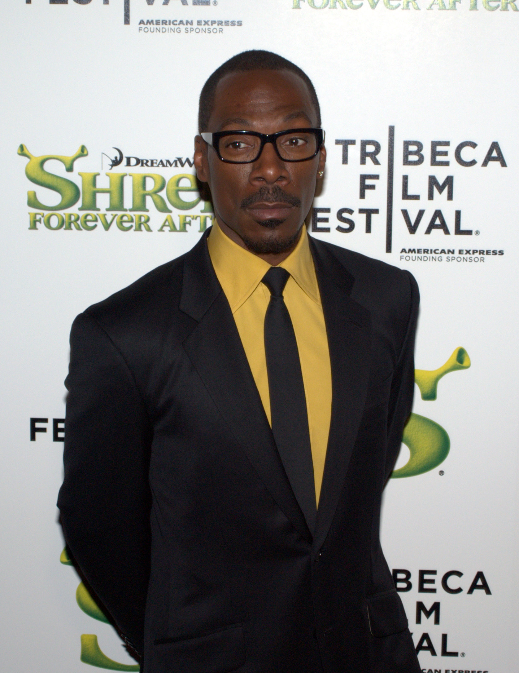 Eddie Murphy at the 2010 Tribeca Film Festival.